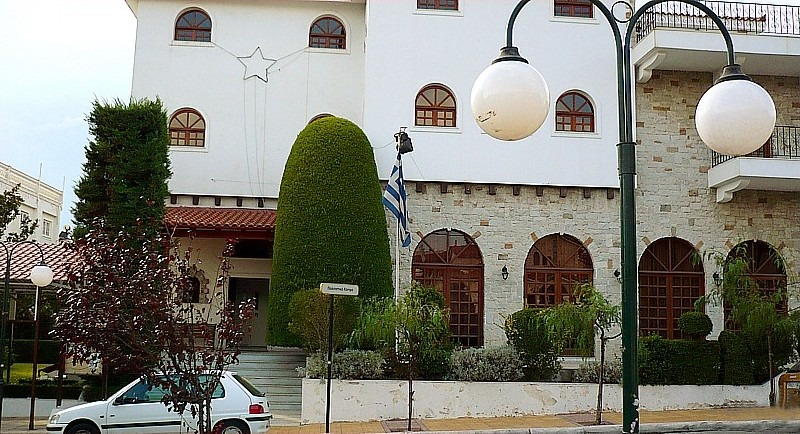 Melissia Cultural Center-Greece